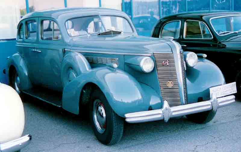 1937 Buick Century Series 60 Model 64 4-Door Touring Sedan